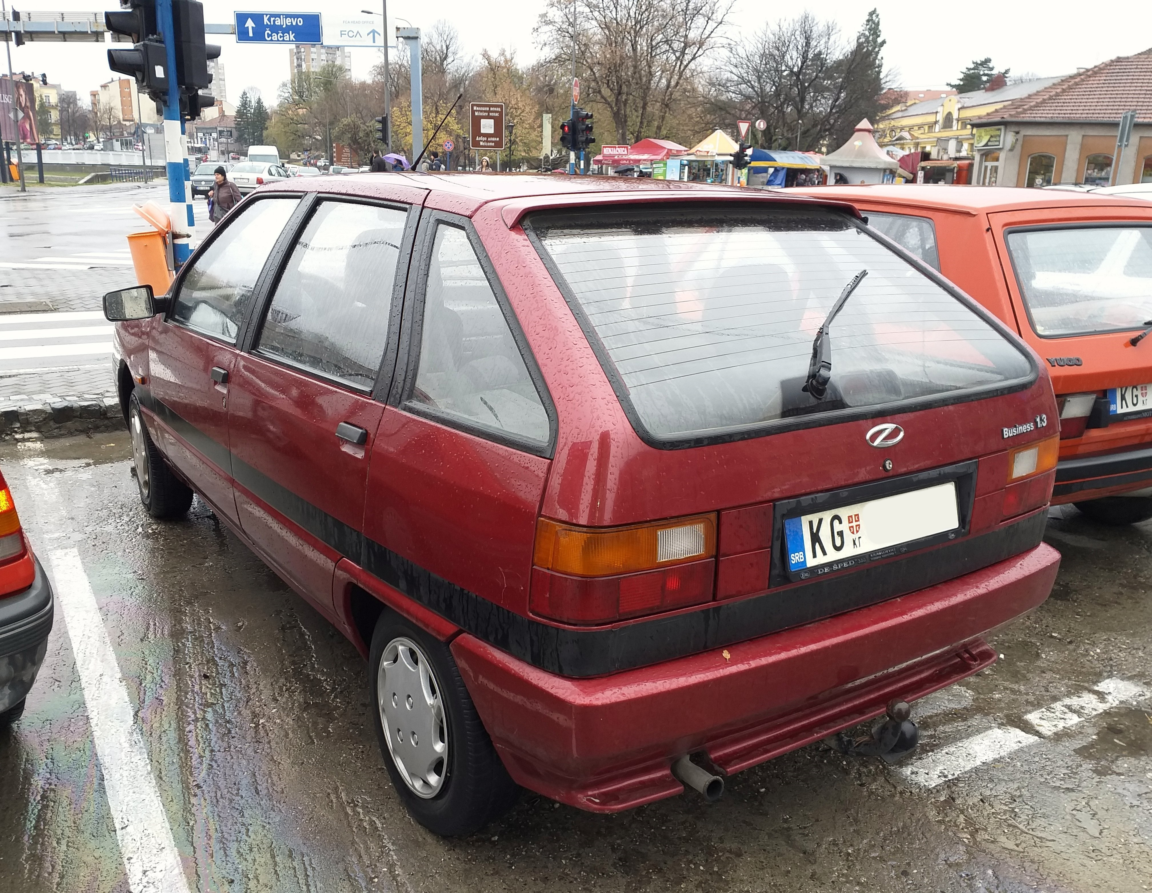 Zastava Florida 1.3 Business in Kragujevac Српски (ћирилица): Застава Флорида 1.3 Бизнис у Крагујевцу